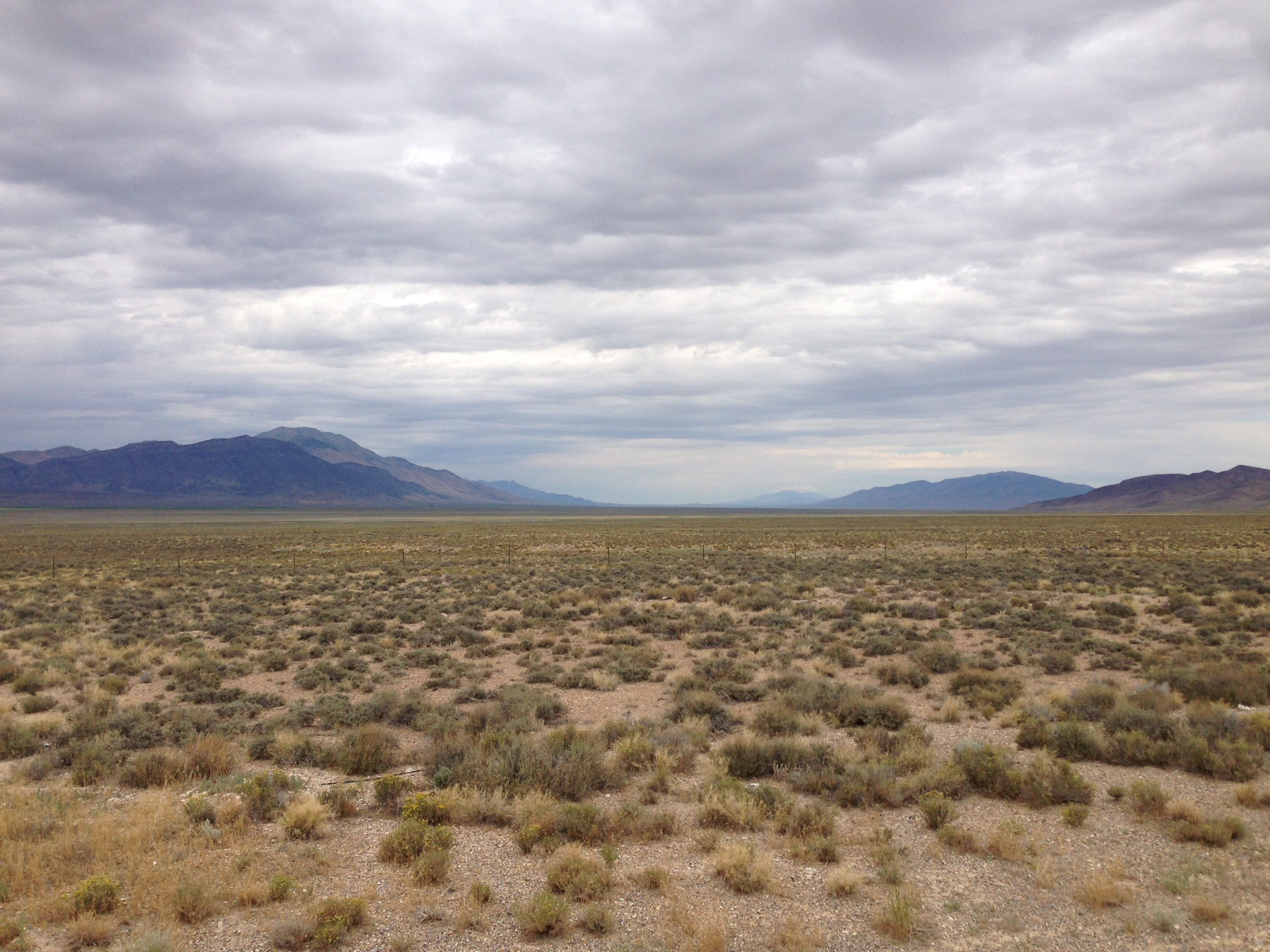 View north up Newark Valley from U.S. Route 50 about 8.1 miles east of the Eureka County line in White Pine County, Nevada